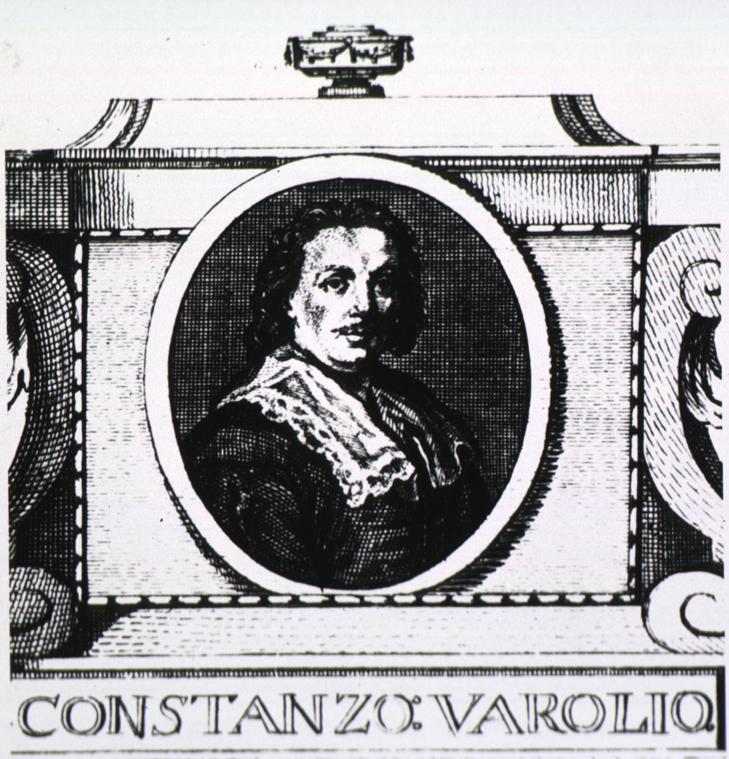 Constanzo Varolio